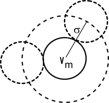 gas molecule with 2 neighbouring molecules